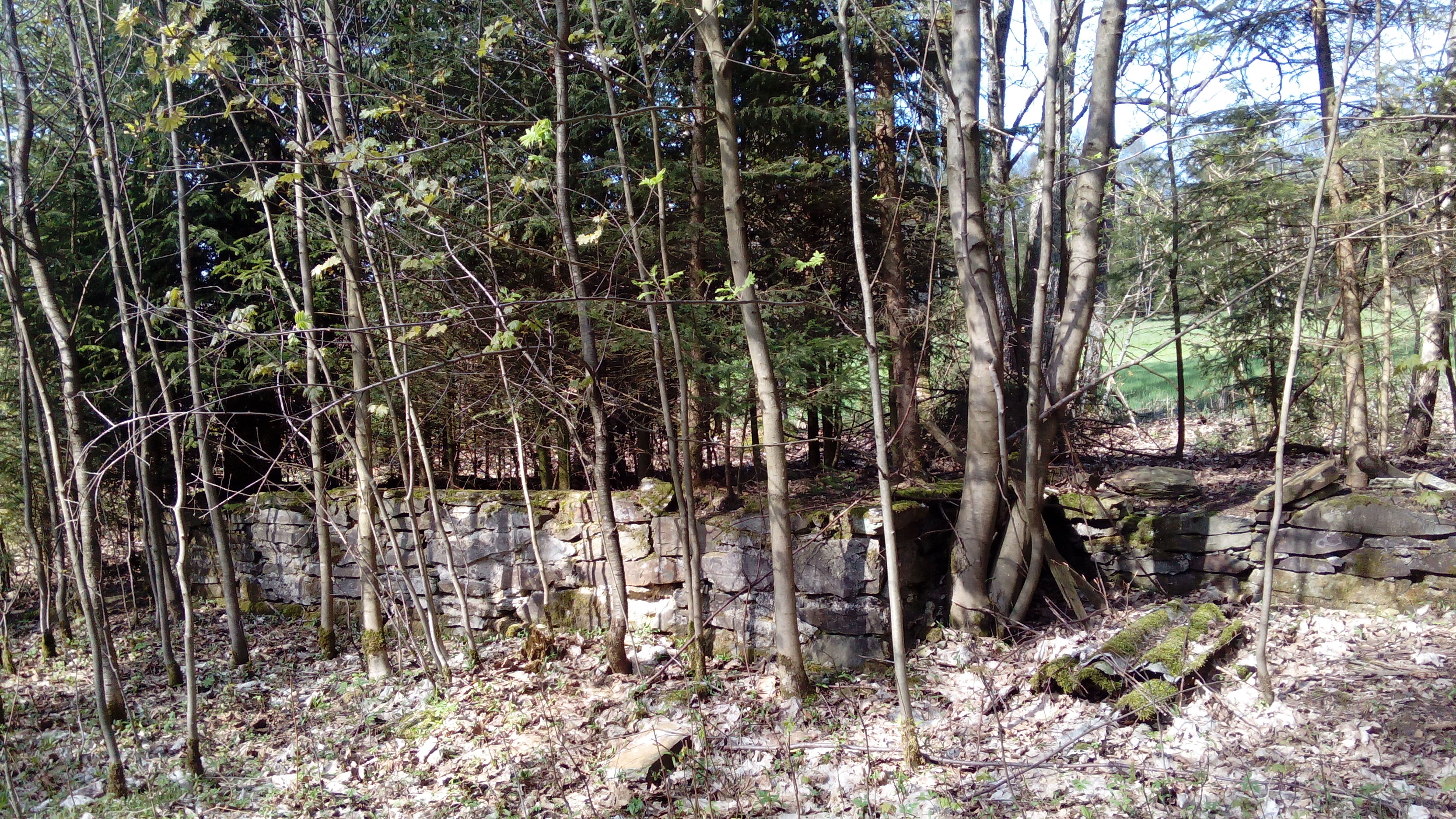 Ruins of settlement in abandoned village Neumugl.